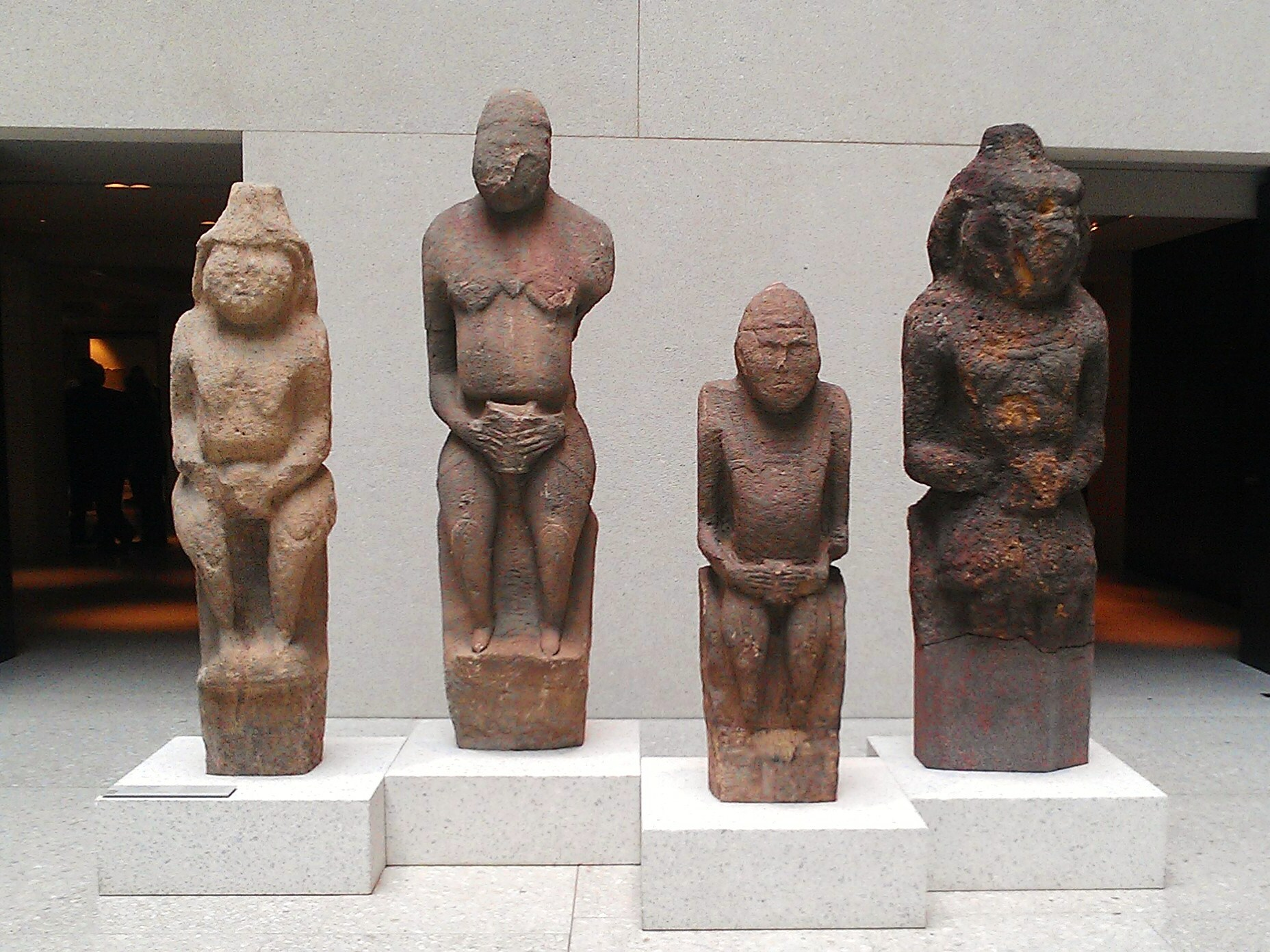 from the Kharkiv Oblast, Ukraine